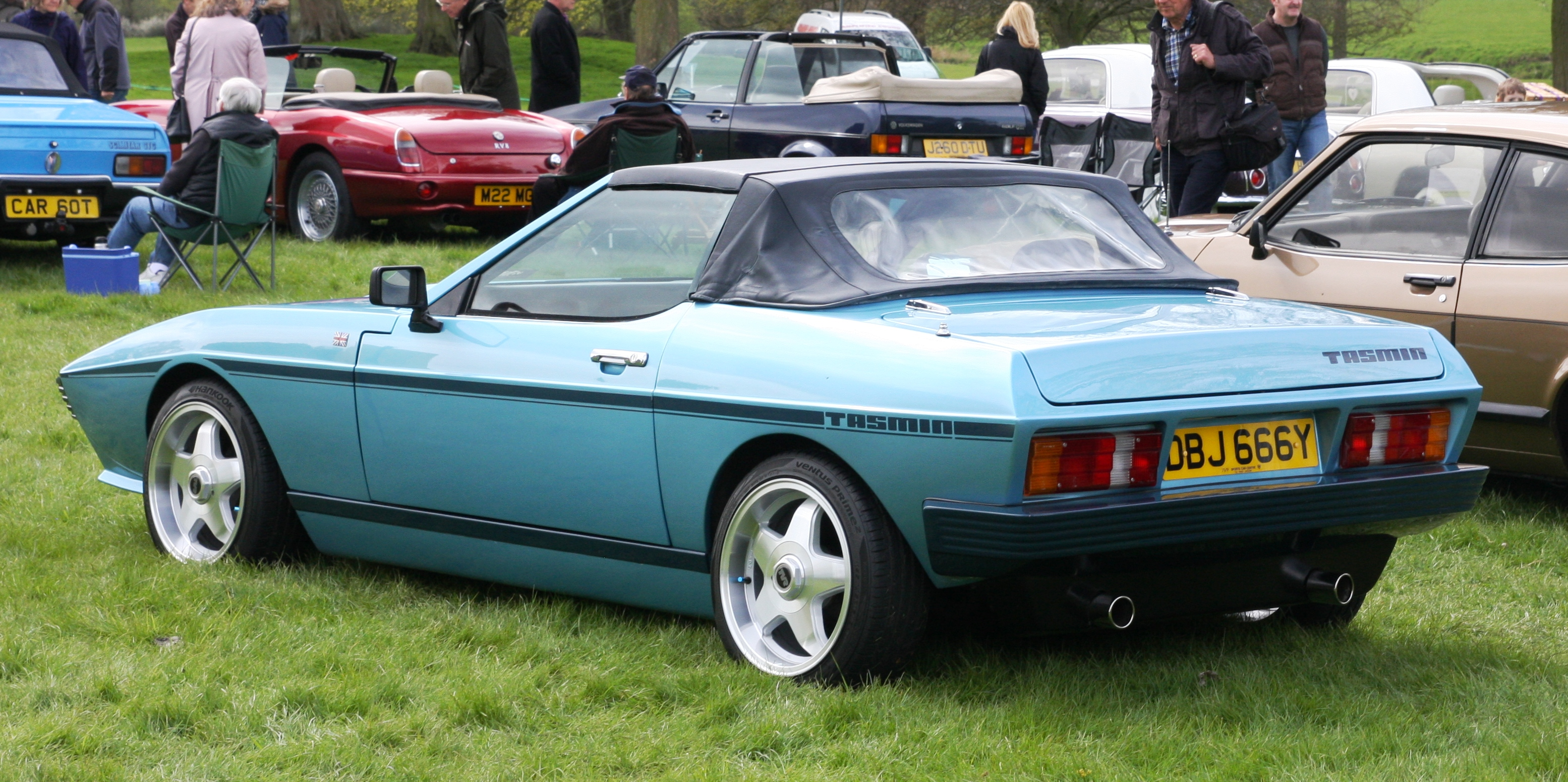 TVR Tasmin (1983) at Turvey (2015)